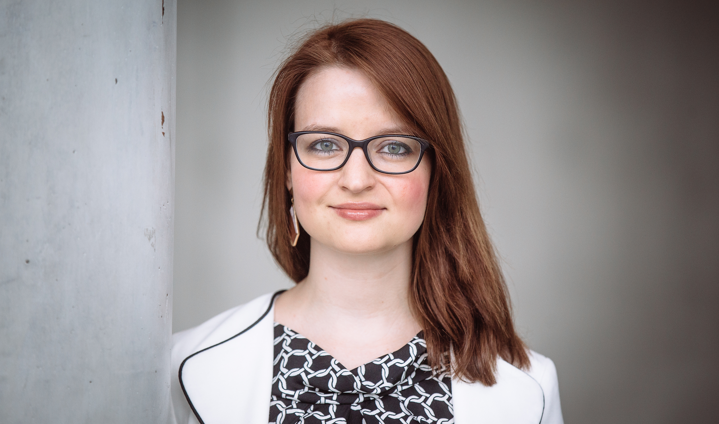 Ronja Kemmer MdB (2017)